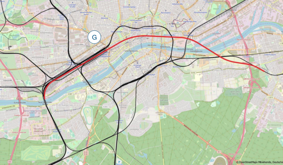 Possible route of a new tunnel for long-distances trains in Frankfurt, Germany.